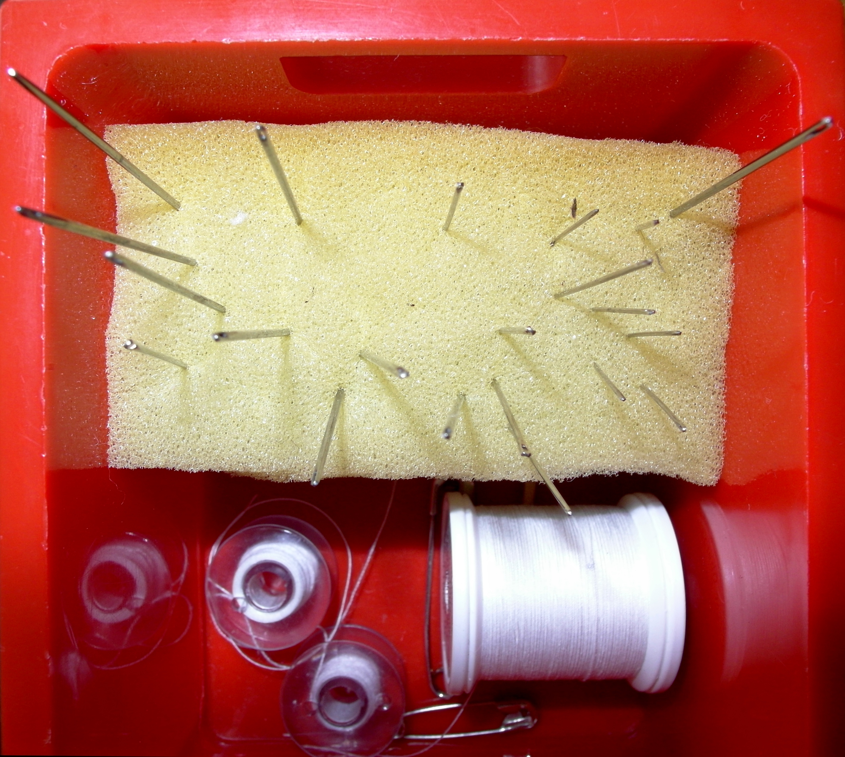 Sewing set